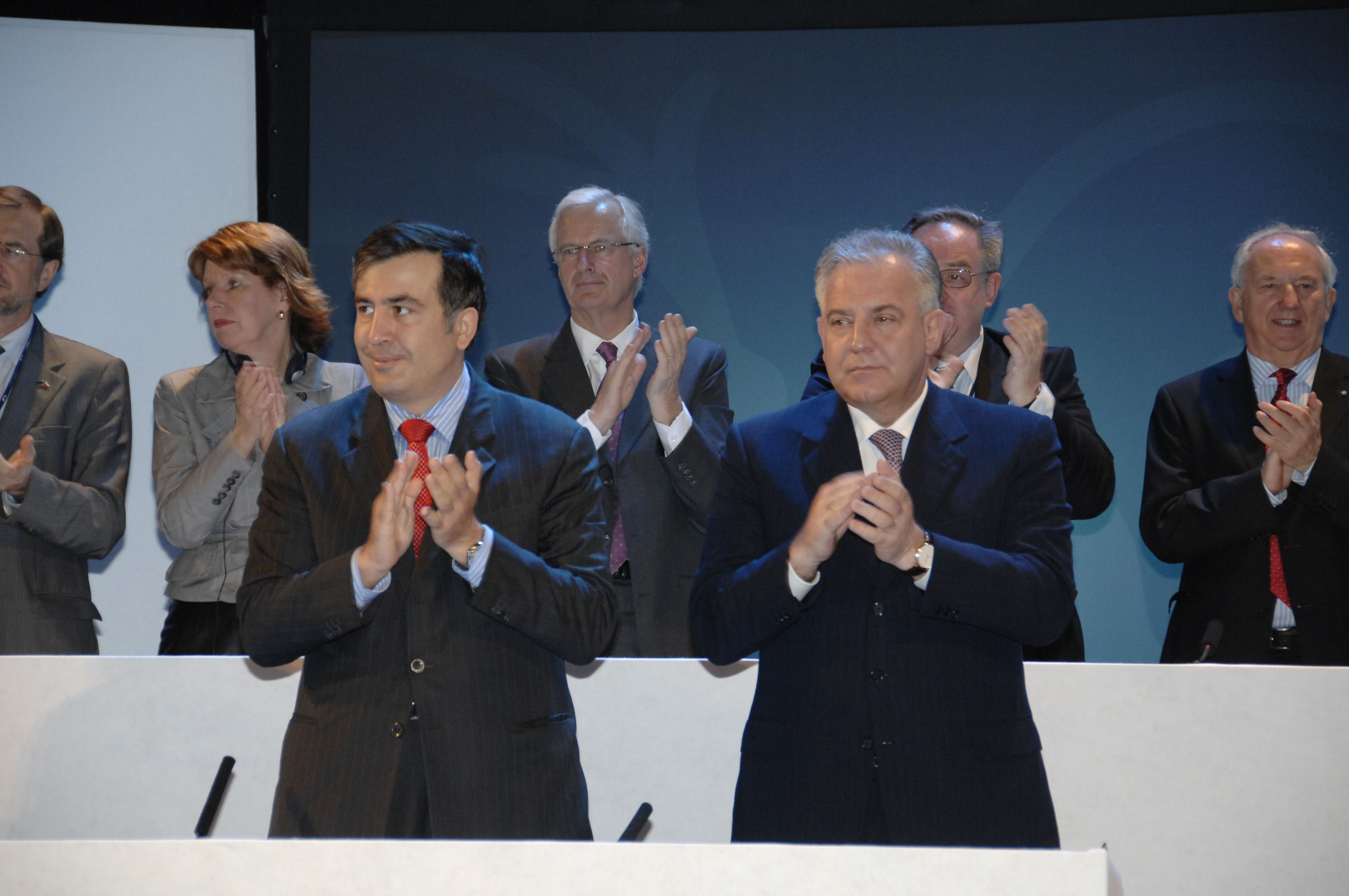 EPP Congress Warsaw